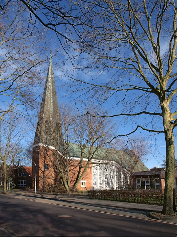 Uetersen (Germany),Redeemer-church , photo 2008